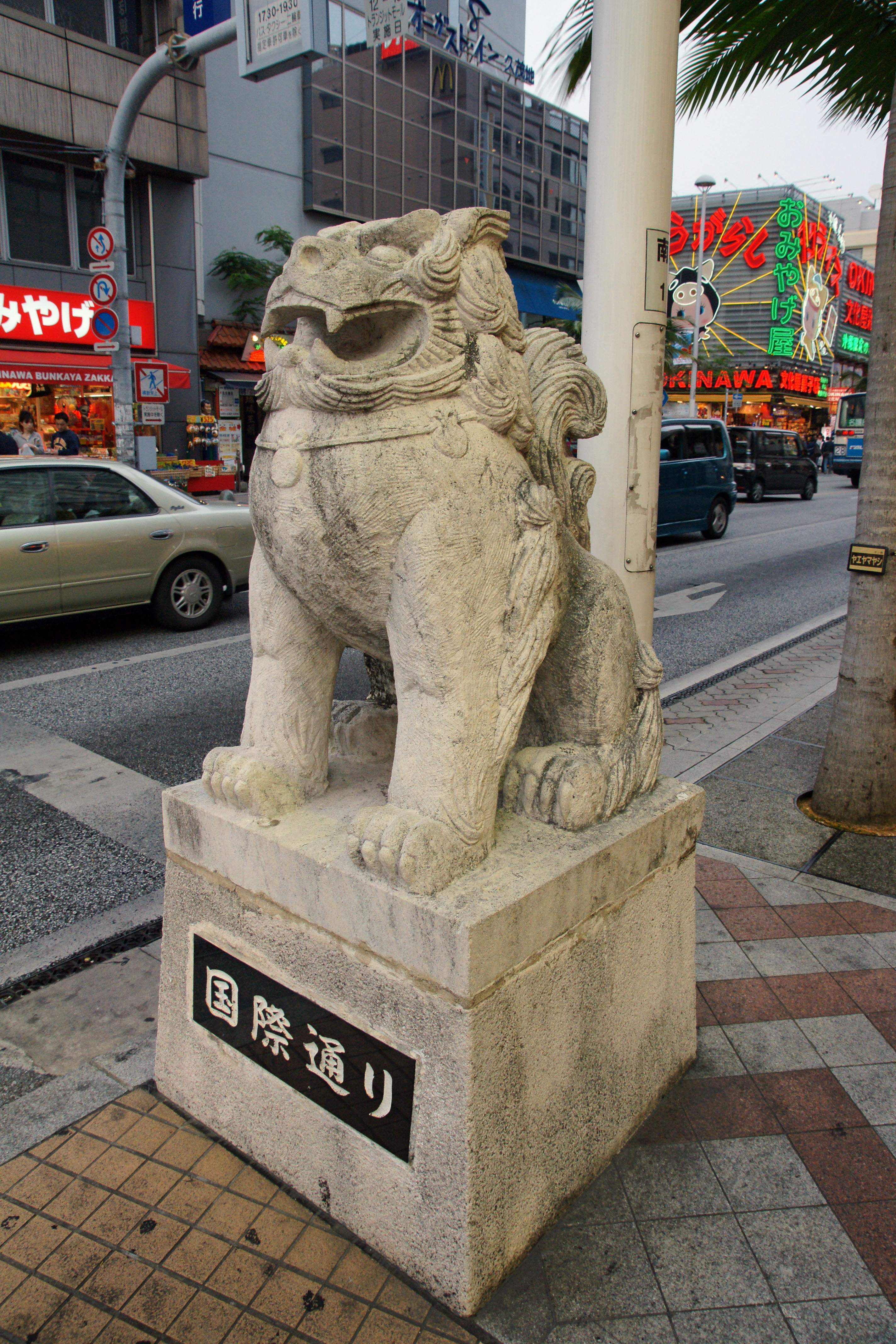 Kokusai-dori (Kokusai street), Naha, Okinawa prefecture, Japan